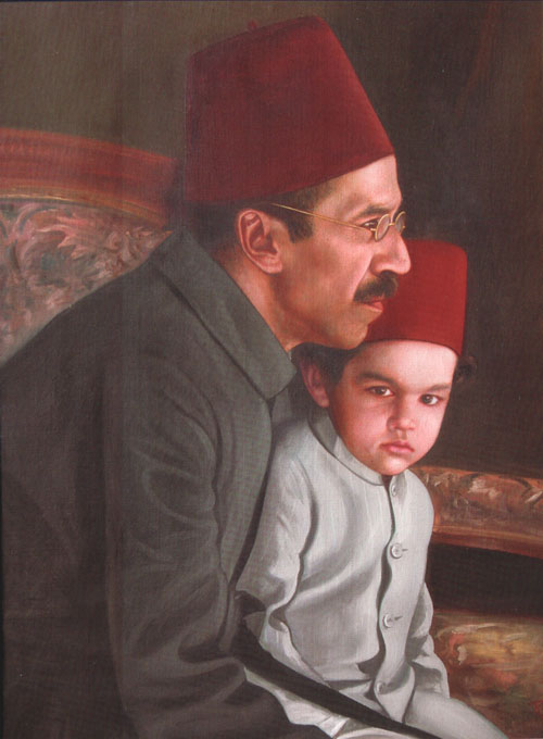 Nizam VII of Hyderabad with his grandson Mukarram Jah c.1934